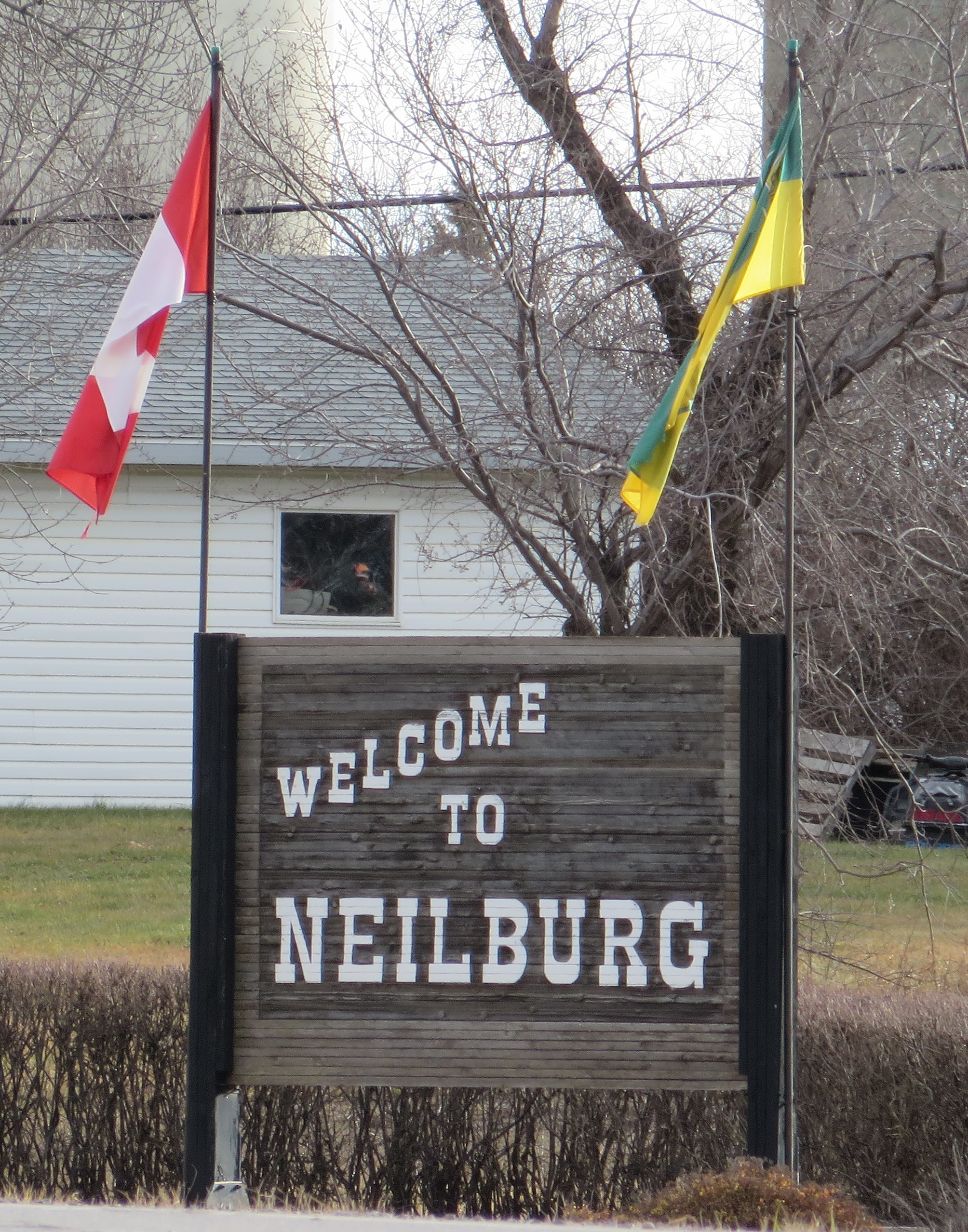 A sign welcoming motorists to Neilburg, Saskatchewan, Canada.